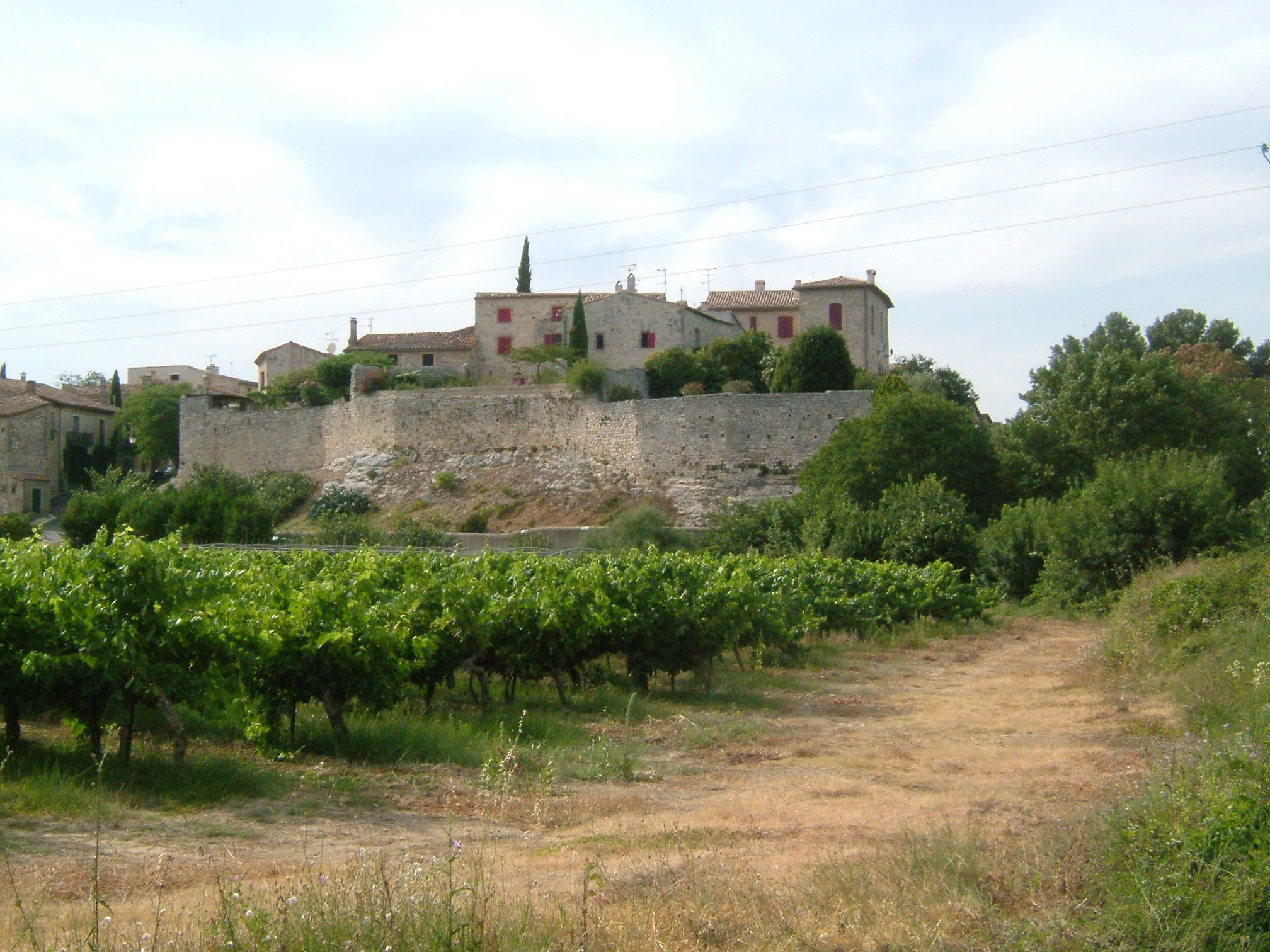 Lecques is a village in Gard, France. View from the south of the village and its ramparts. The River Vidourle is off the shot to the right, the road to the left of the ramparts leads up to the Place de l'Église.